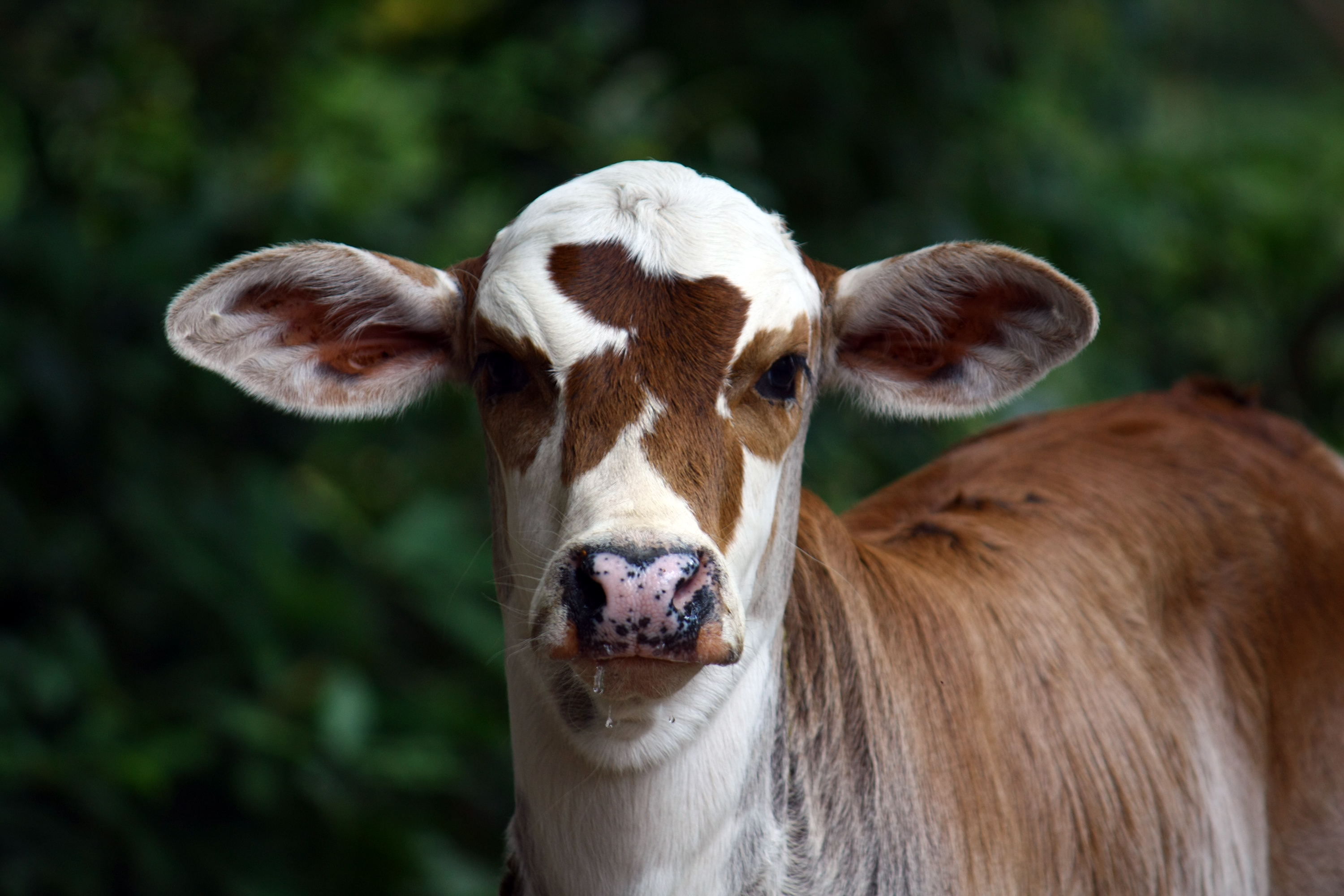 Calf head - Batticaloa, Sri Lanka